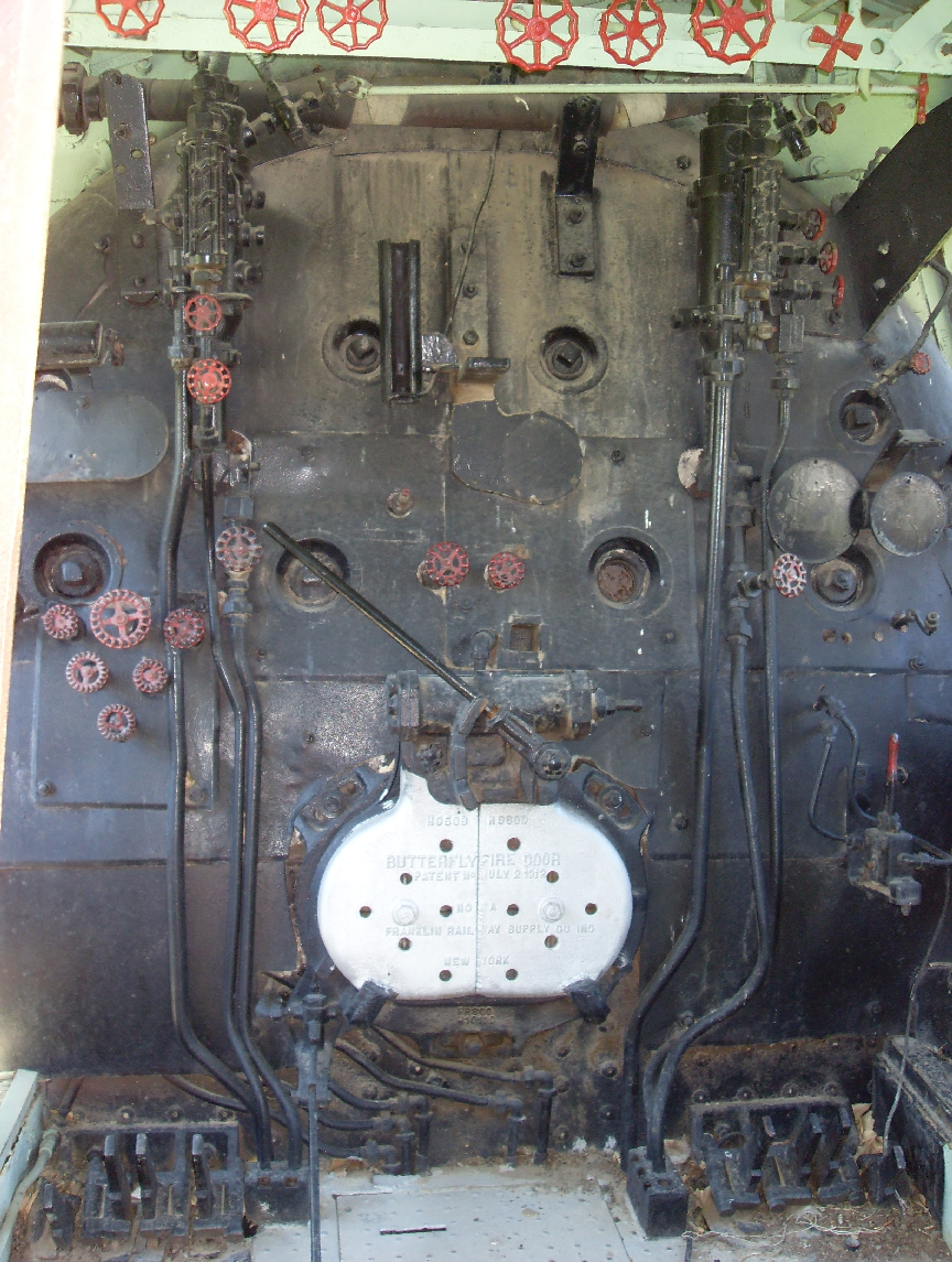 Inside view of the Chicago, Burlington and Quincy Railroad steam locomotive in Douglas, Wy, USA. part of the exhibition of the Douglas Railroad Interpretive Center - do not enter ;-)